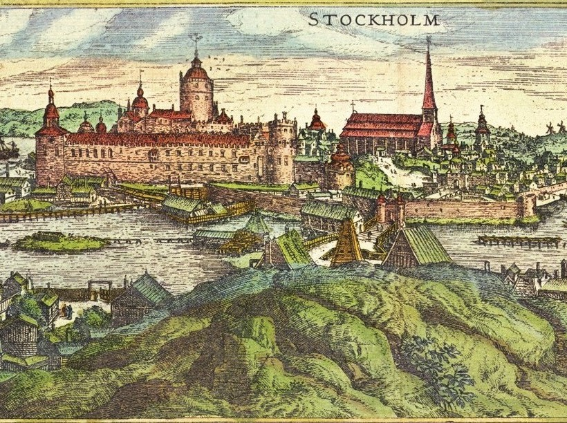 Northern city gate of Stockholm c. 1570. Engraving by Frans Hogenberg.